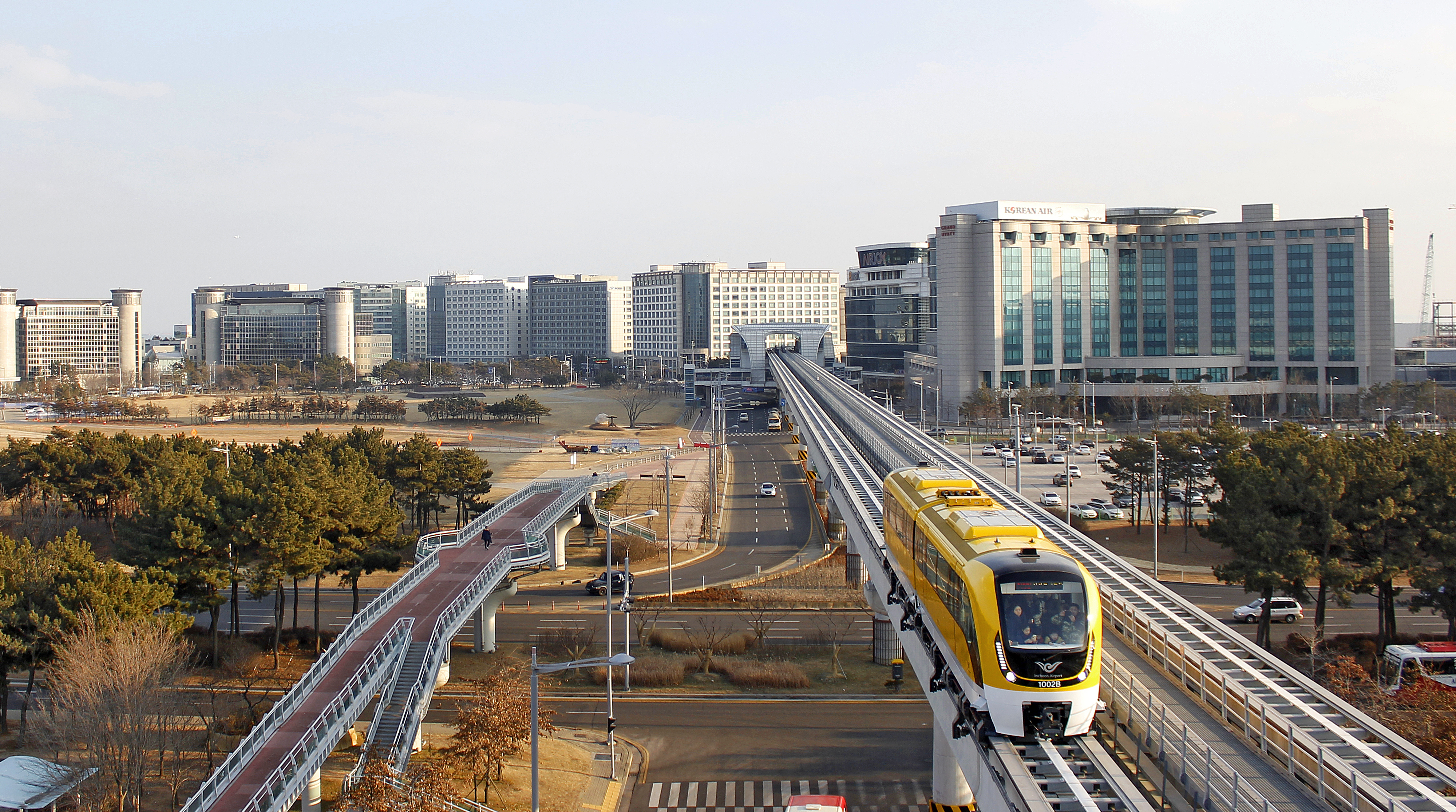 Incheon International Airport International Business Center(IBC)